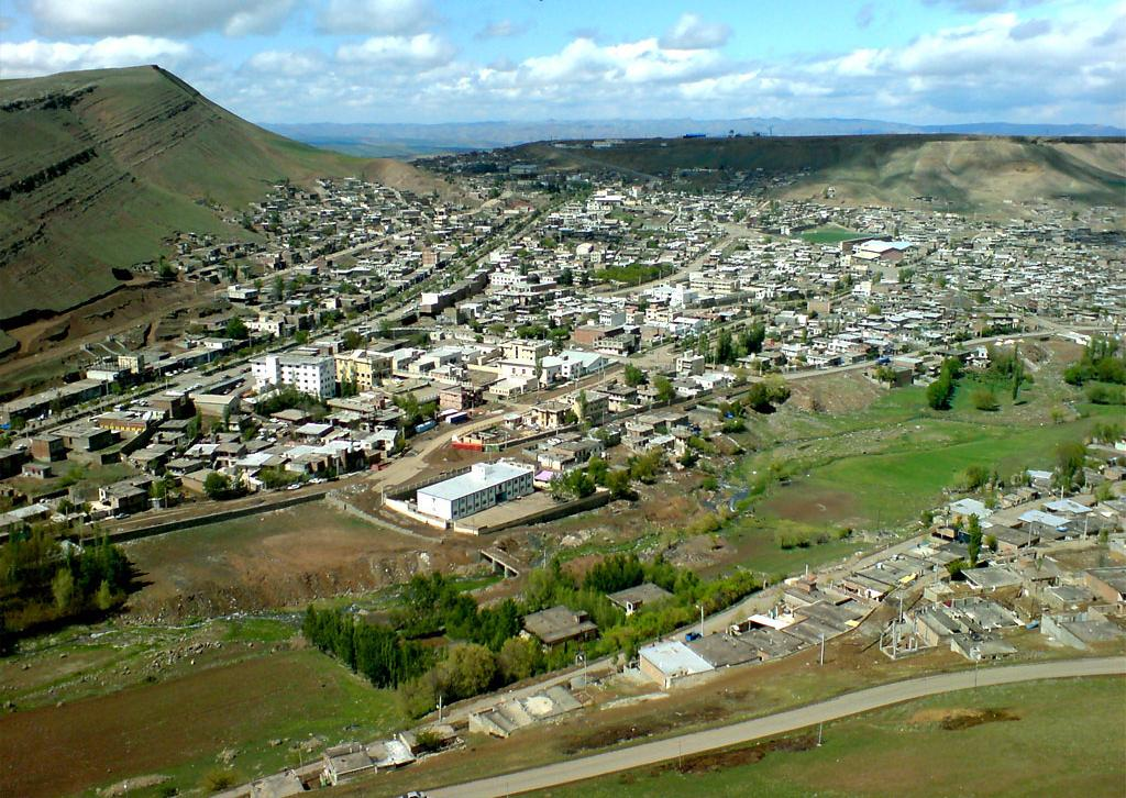 Germi Best City in northwest of IRAN